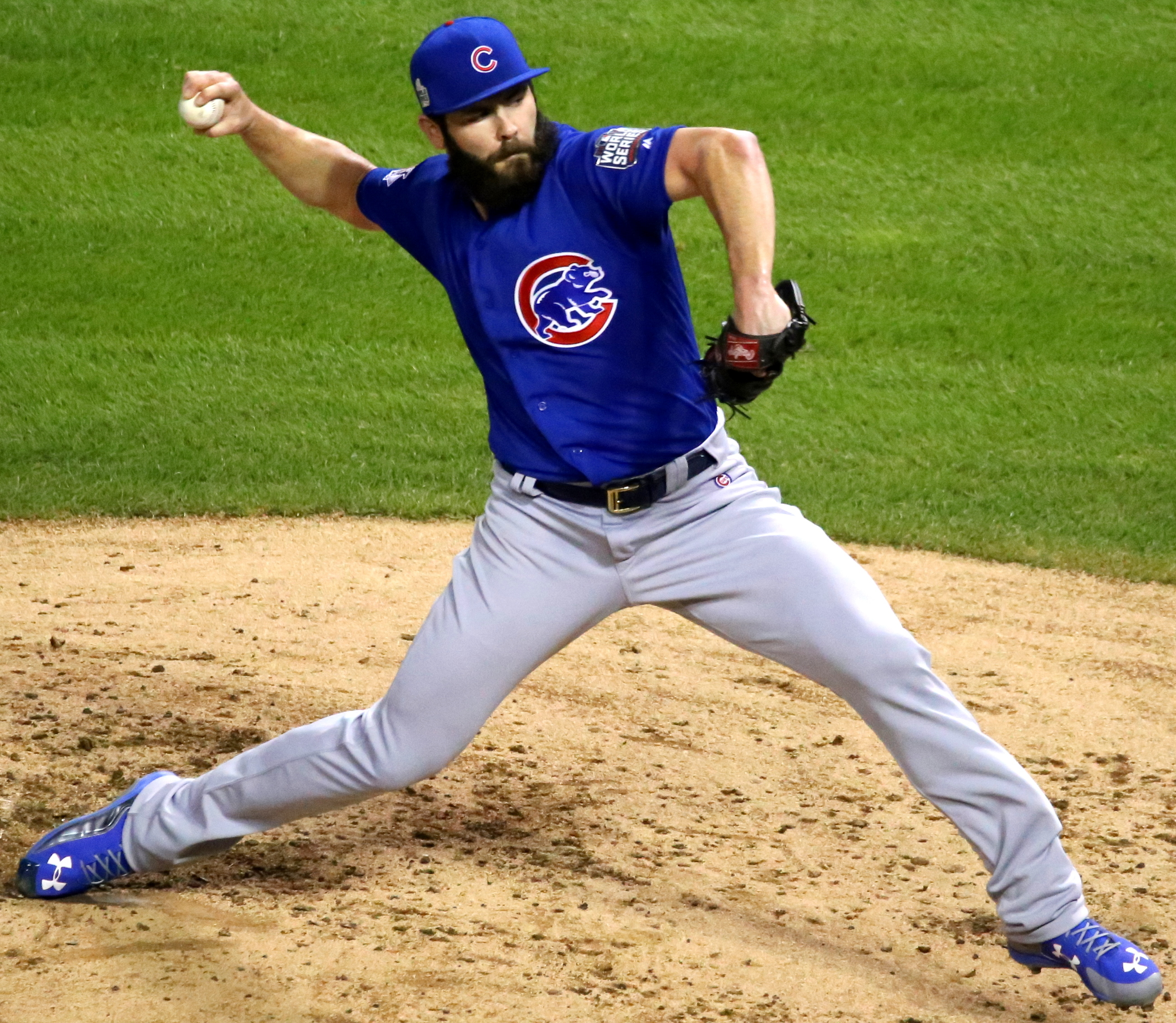 Cubs starter Jake Arrieta delivers a pitch in the first inning of World Series Game 6.